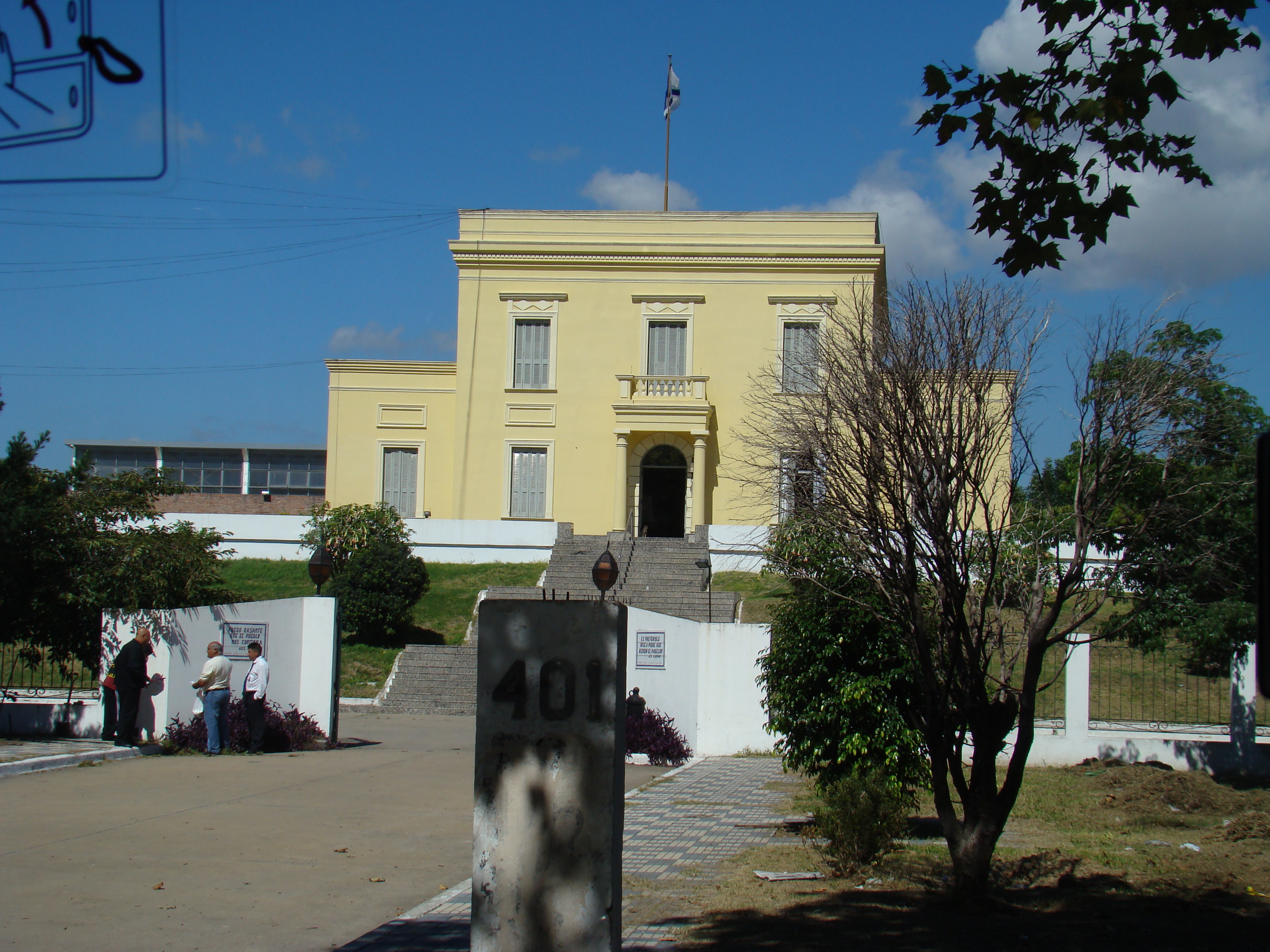 Casa Amarilla (Yellow House), at Almirante Brown avenue, is the replica of the house where Admiral Brown lived, the first mariner in Argentina (Irish, as most of the first naval heroes). The building, completed in 1980, is today the site of the Historical Institute of Naval Studies, established in 1948. The landmark is located near Boca Juniors Stadium, adjacent to the club's practice field.